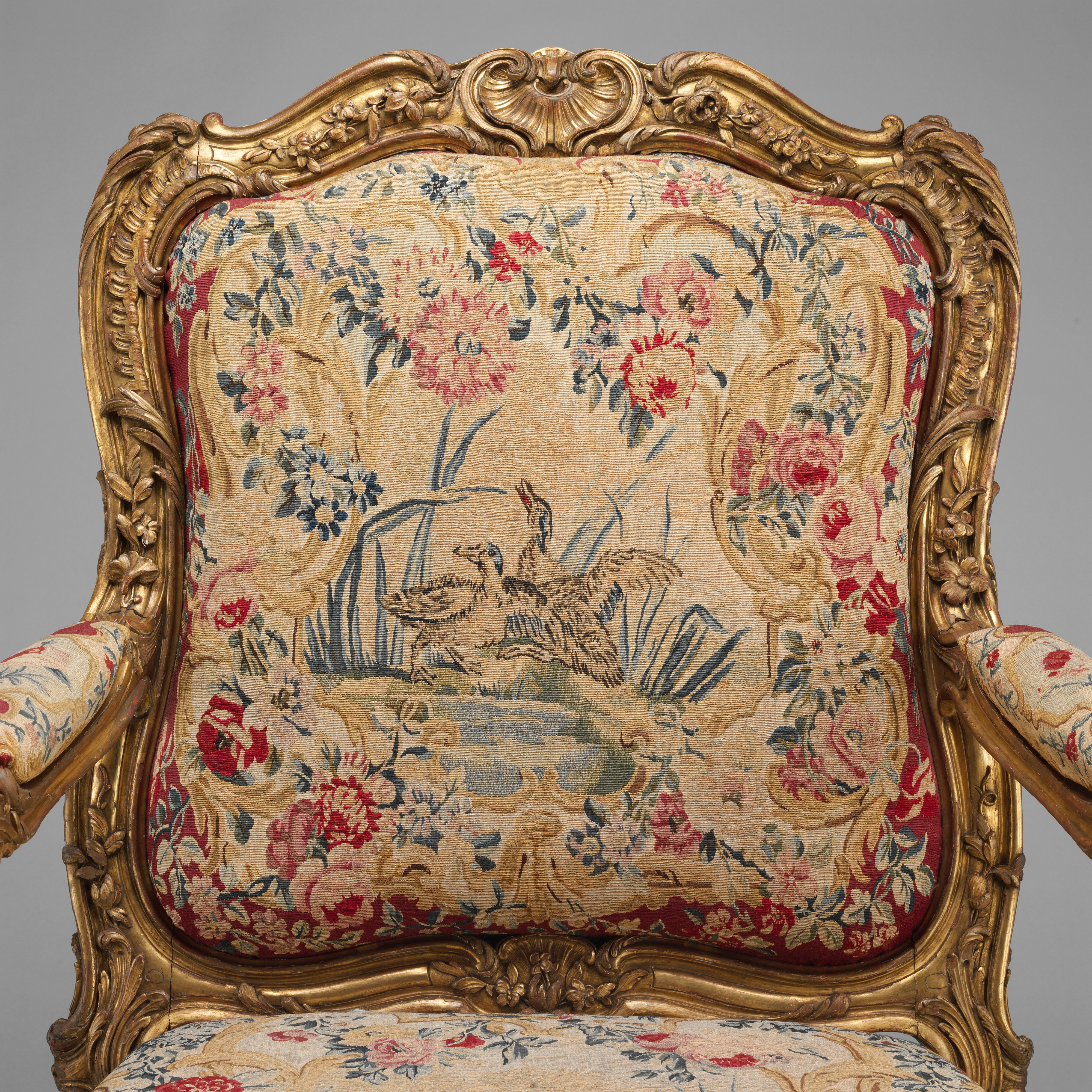 French, Paris; Armchair; Woodwork-Furniture